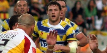 Catalans Dragons vs Warrington Wolves 2009